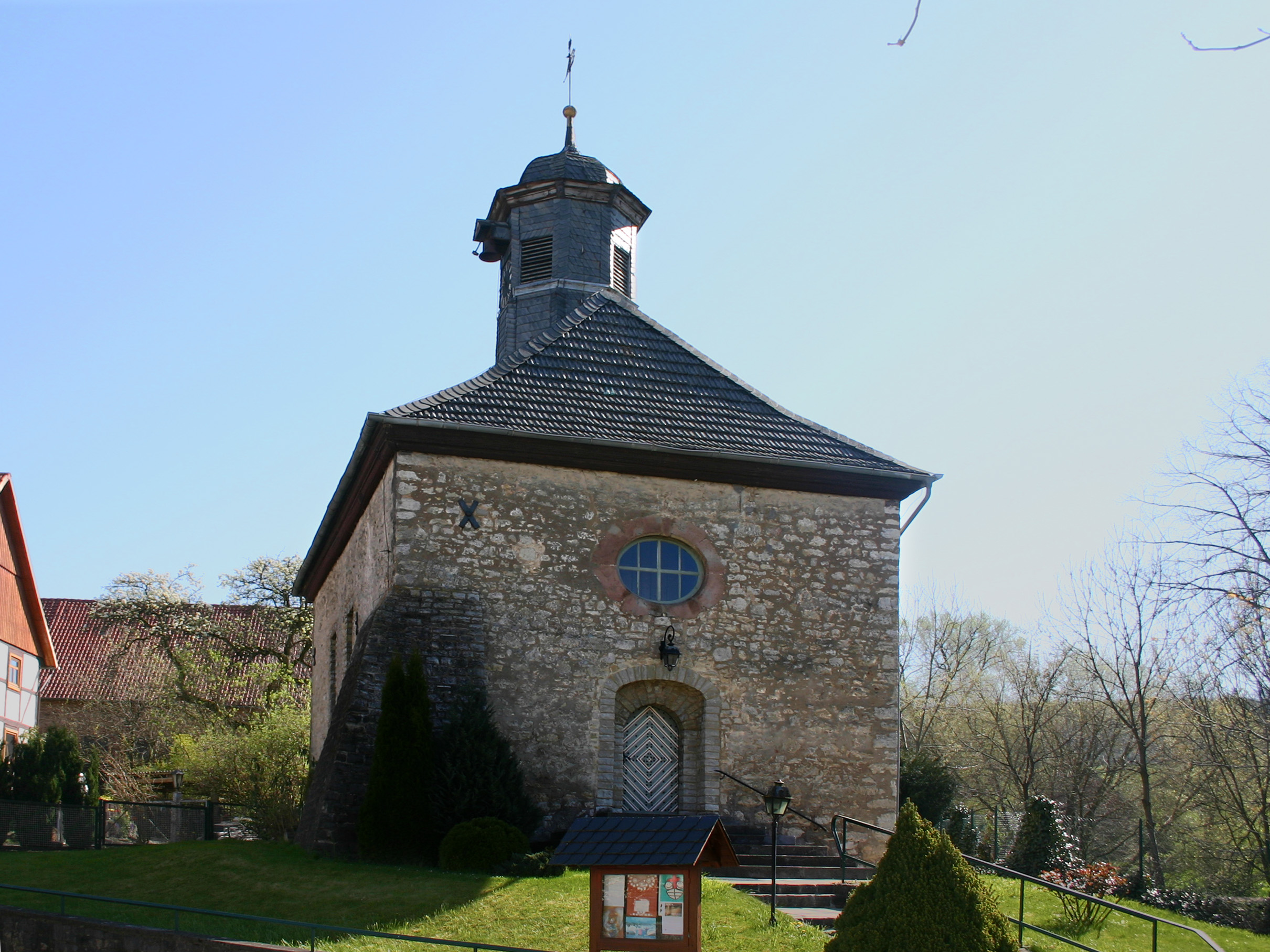 Chapell St. Martin Dannhausen Church